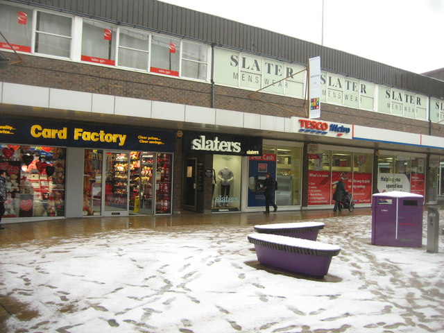 Shops in the town centre Walking from the railway station to Festival Place.